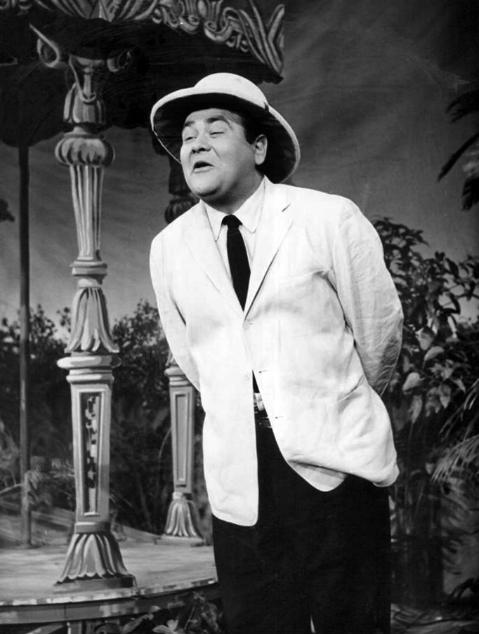 Photo of Jonathan Winters performing one of his routines on the television program The NBC Comedy Hour (an intended successor/replacement for The Colgate Comedy Hour).